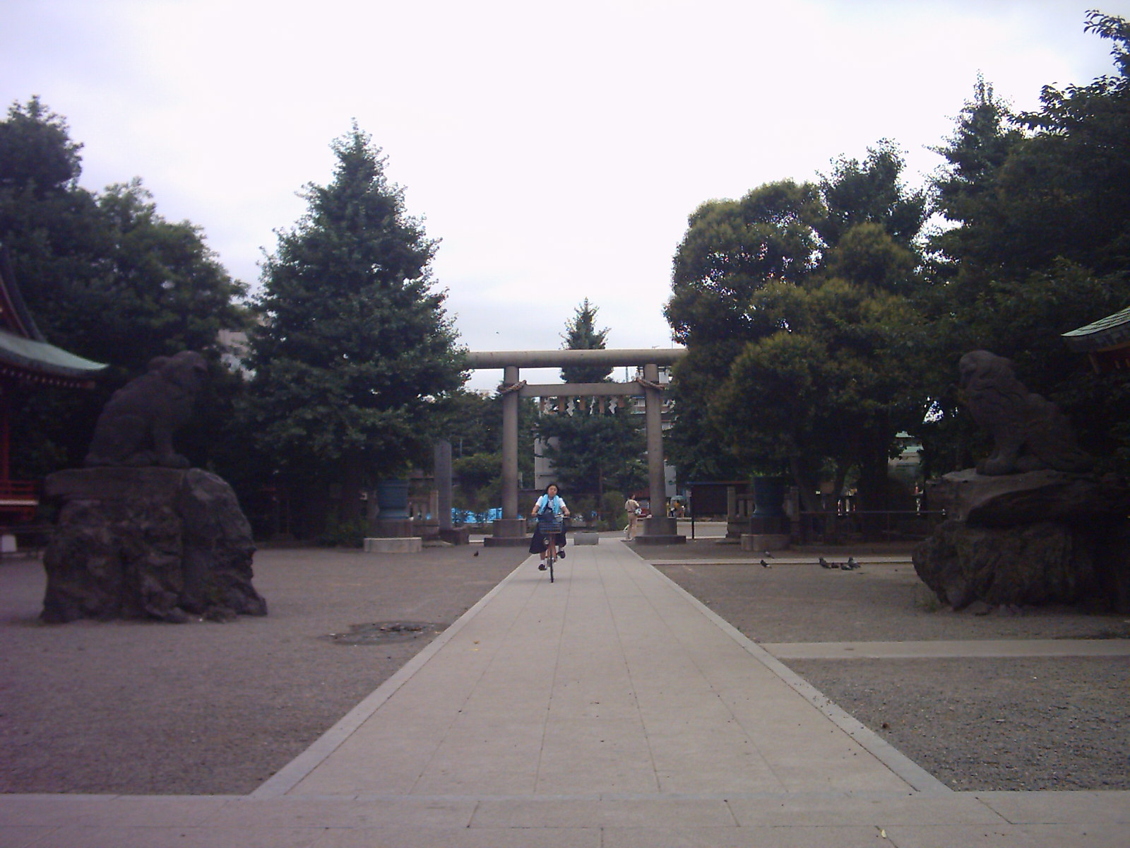 The entry gate to Asakusa jinja (shrine).